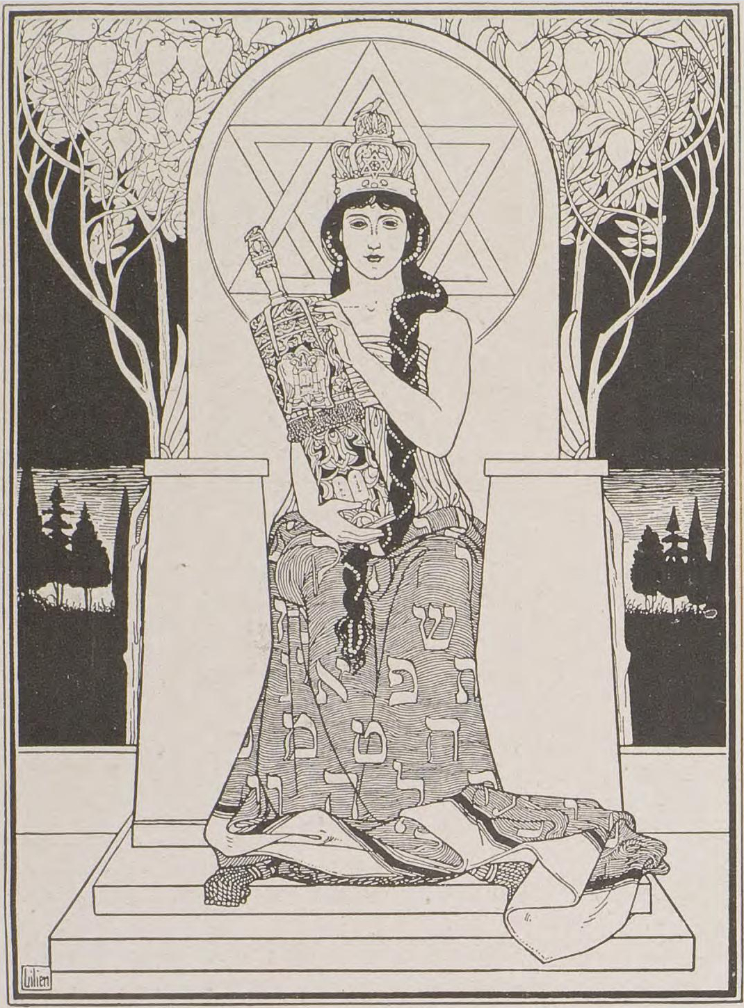 The Sabbath Princess. Illustration by Lilien (1874-1925) of the book: Juda, ballads of Börries von Münchhausen.(Berlin 1901)